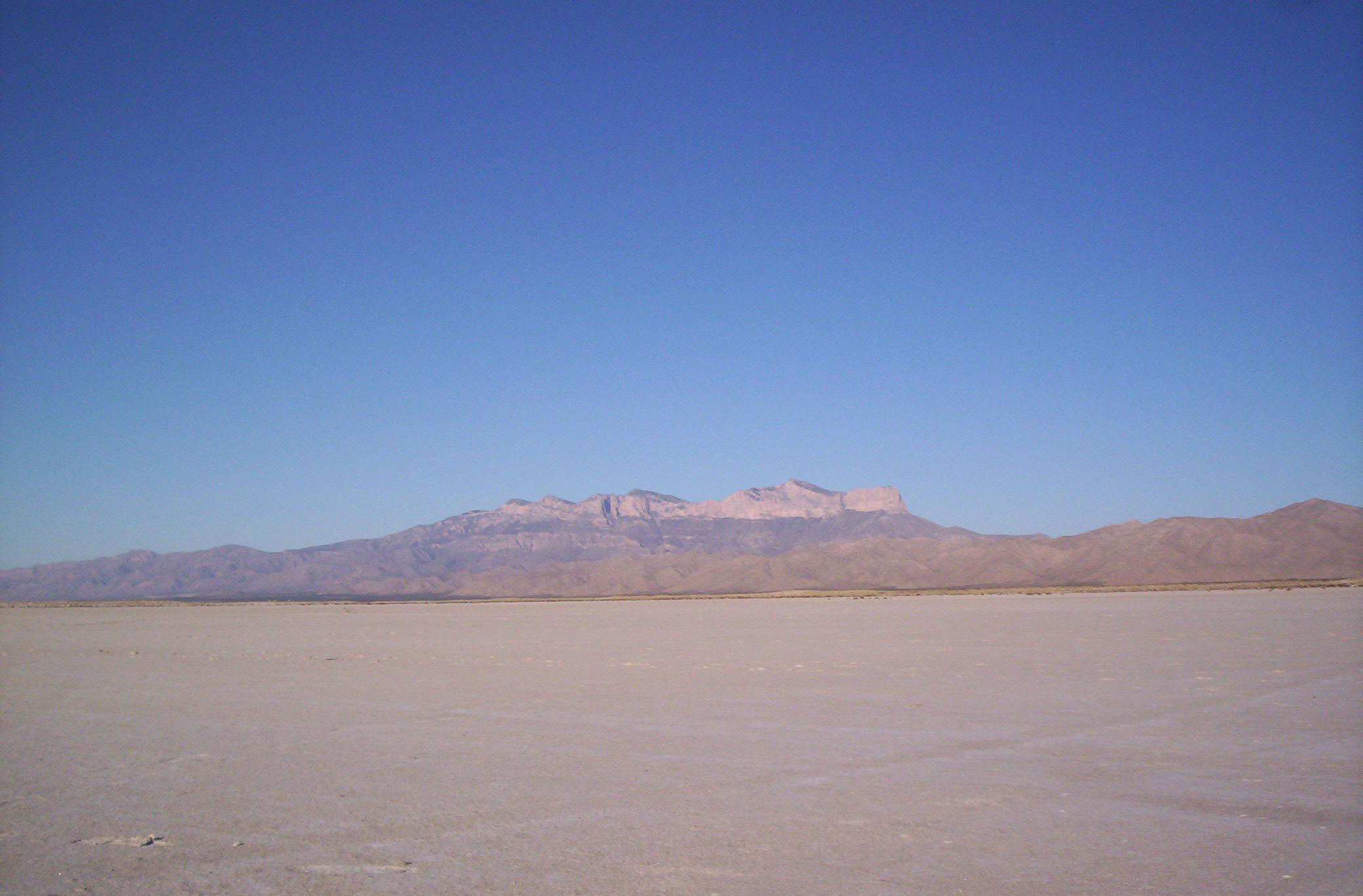 The salt basin in Salt Flat, Texas, with the Guadelupe Mountains in the background